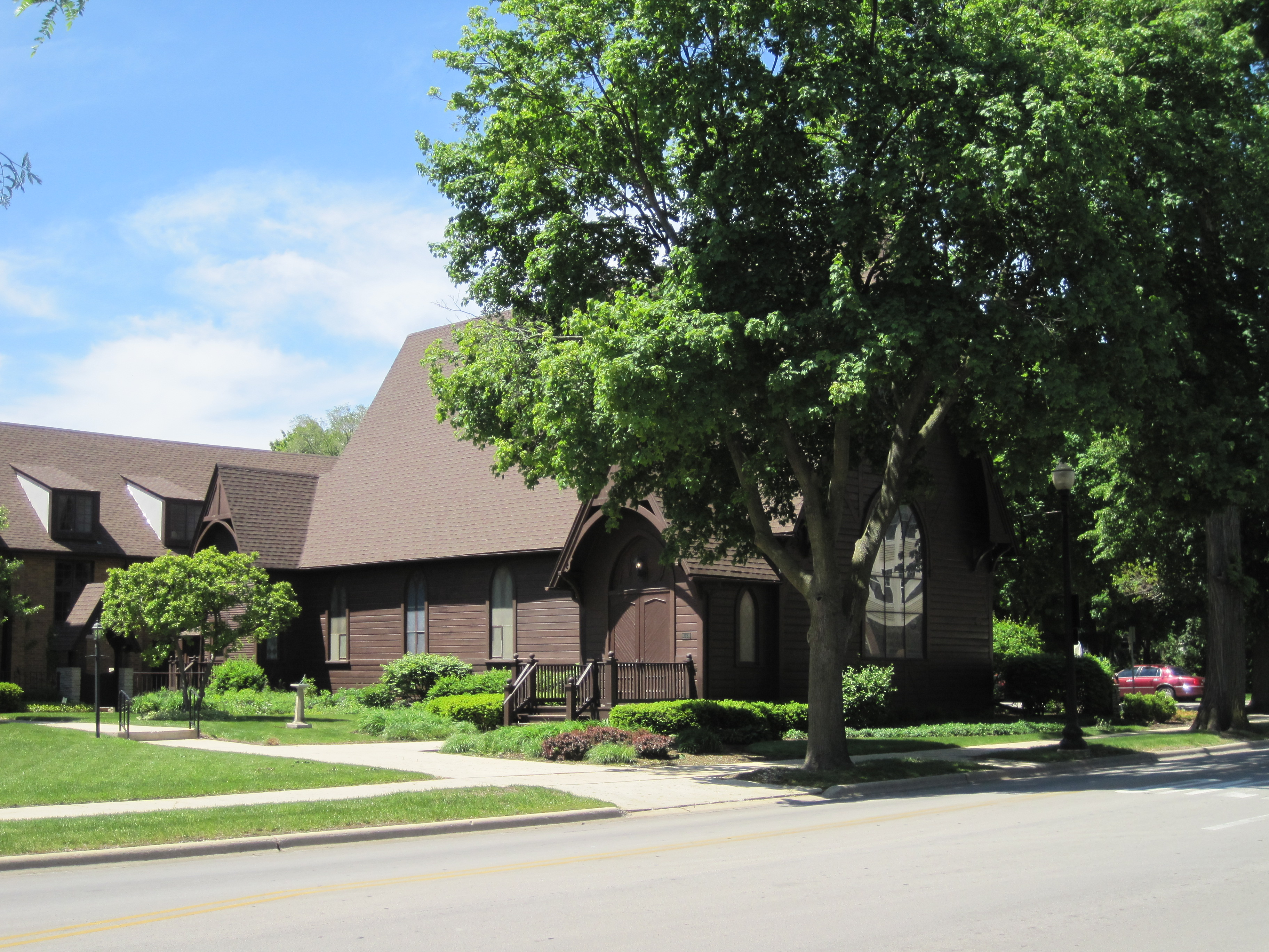 I (Teemu08 (talk)) took this image on May 27, 2011